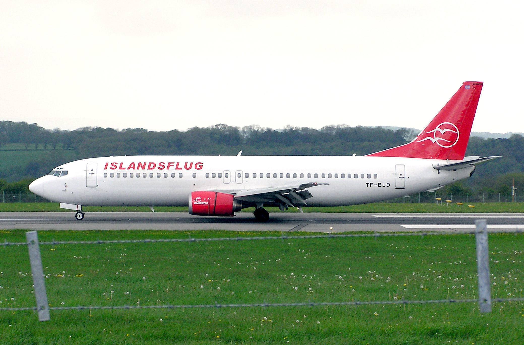 Islandsflug Boeing 737-400 (Icelandic registration TF-ELD) taxying after landing at Bristol Airport, England. Photographed by Adrian Pingstone in May 2004 and released to the public domain.